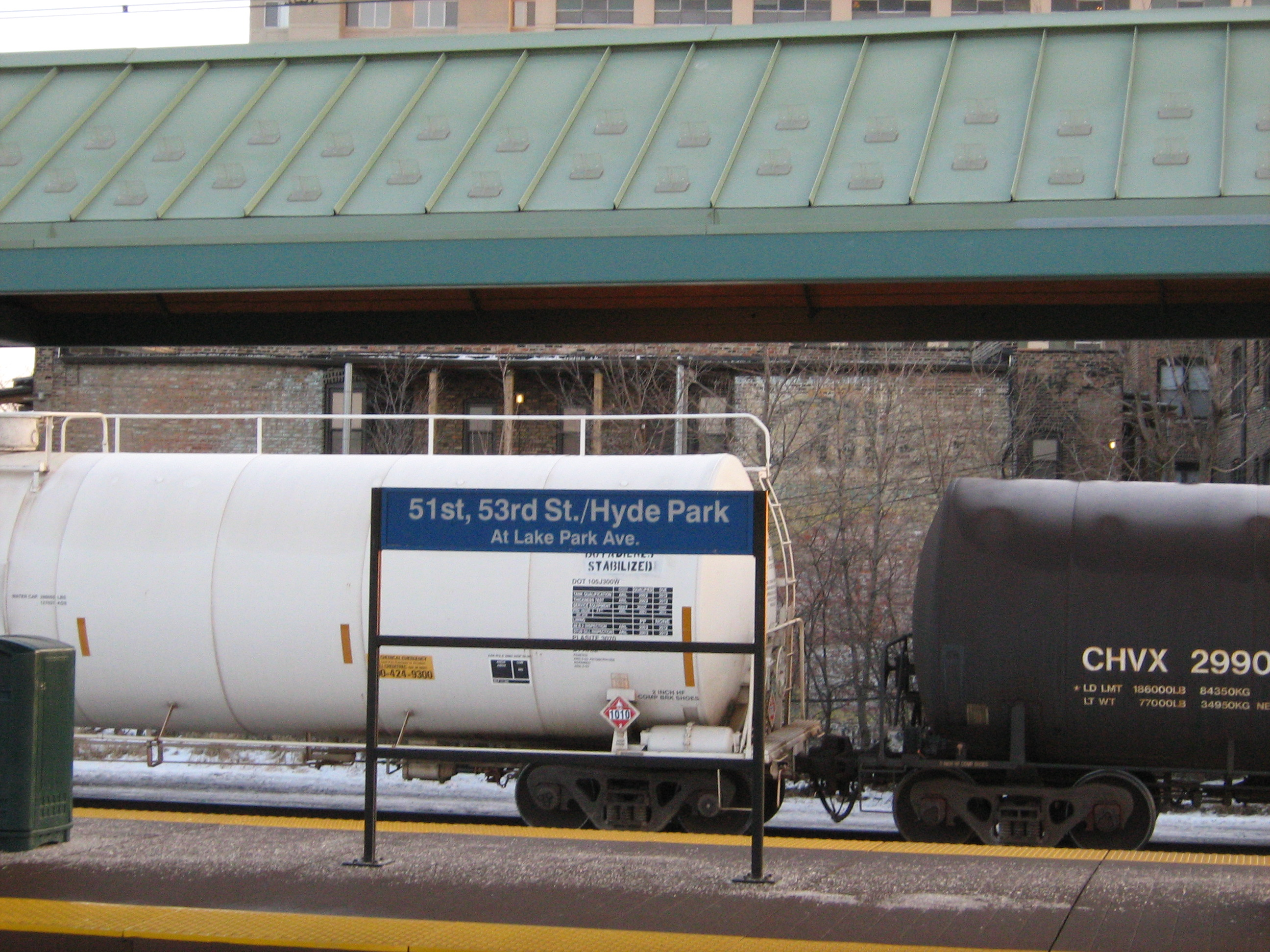 A pair of tank cars pass by the platform of 51st-53rd Street/Hyde Park Metra Electric station in the Hyde Park section of Chicago.